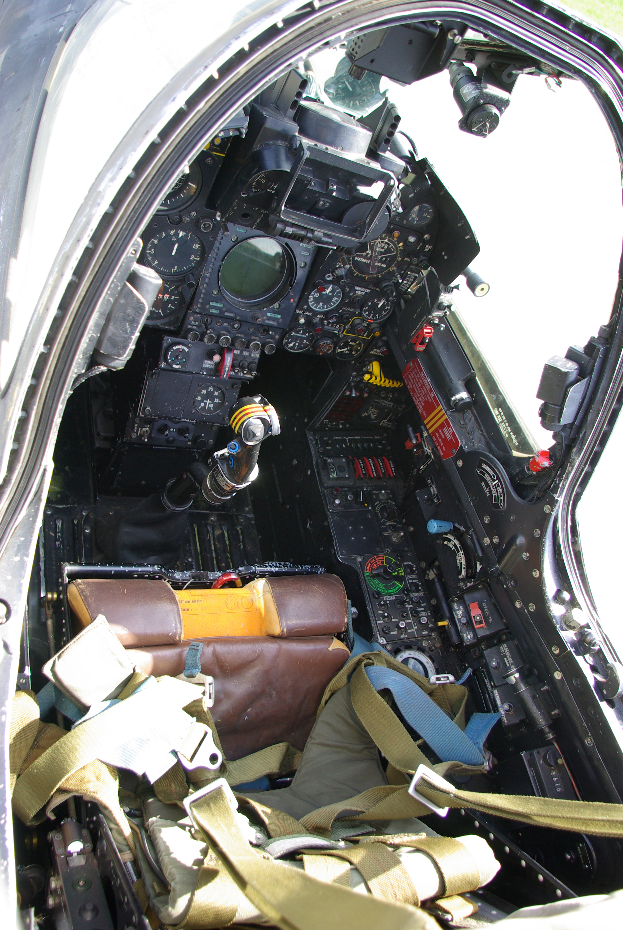 Cockpit of a Dassault Mirage IIIE.